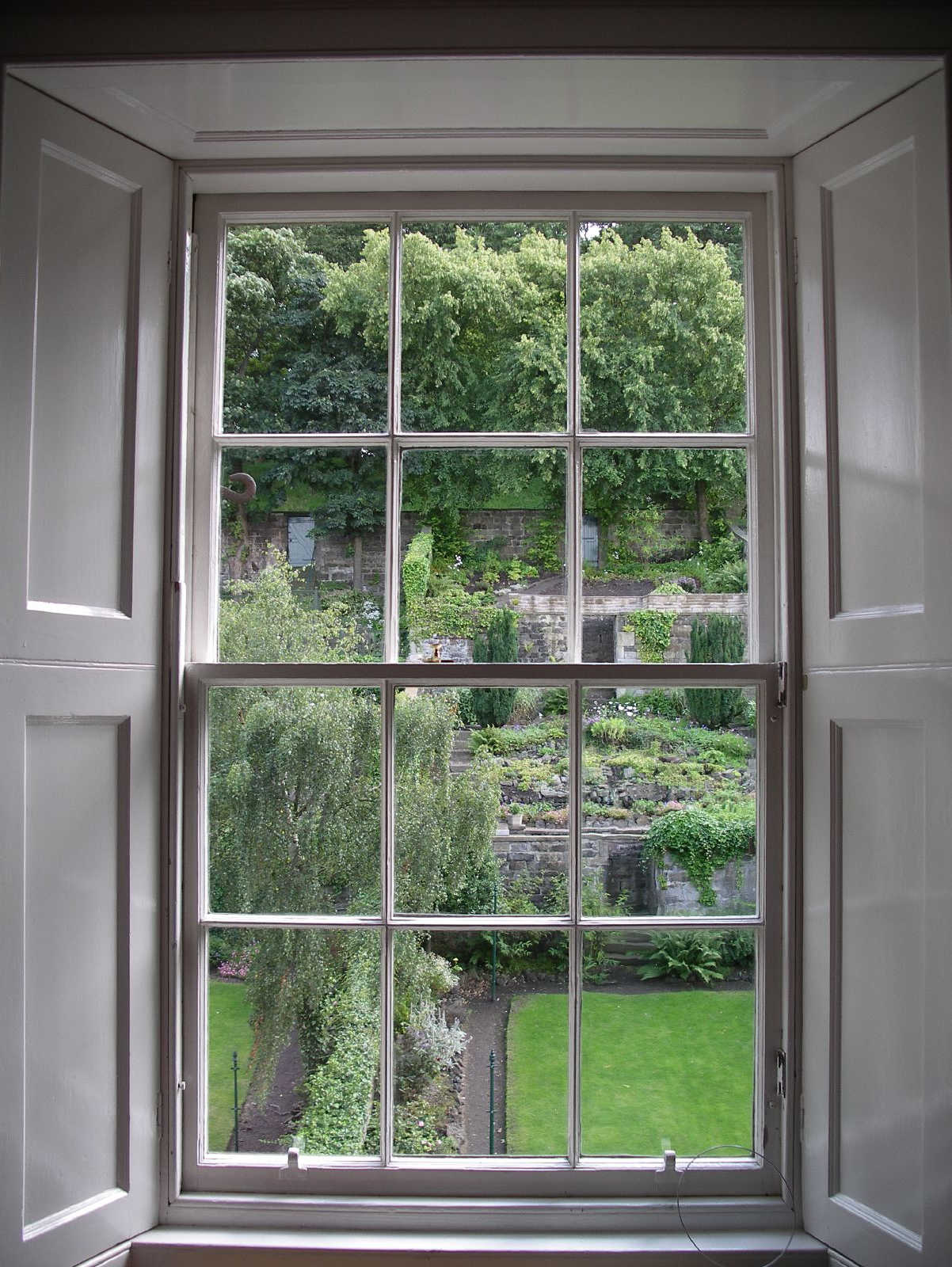 Window of Our Room, Adria House Hotel, 11 Royal Terrace